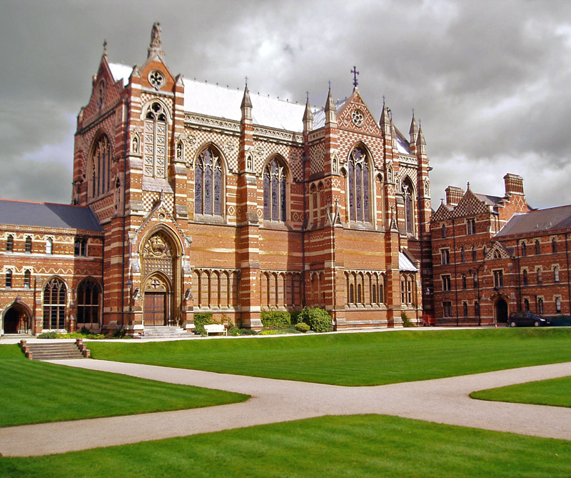 The College itself is named after John Keble, one of Pusey's colleagues in the Oxford Movement, who died four years before its foundation in 1870. It was decided immediately after Keble's funeral that his memorial would be a new Oxford college bearing his name. Two years later, in 1868, the foundation stone was laid by the Archbishop of Canterbury on St Mark's Day. The college first opened in 1870, taking in thirty students, whilst the Chapel was opened on St Mark's Day 1876. Accordingly, the College continues to celebrate St Mark's Day each year. (Wikipedia) One French visitor is quoted saying: "It is magnificent but it is not the railway station".